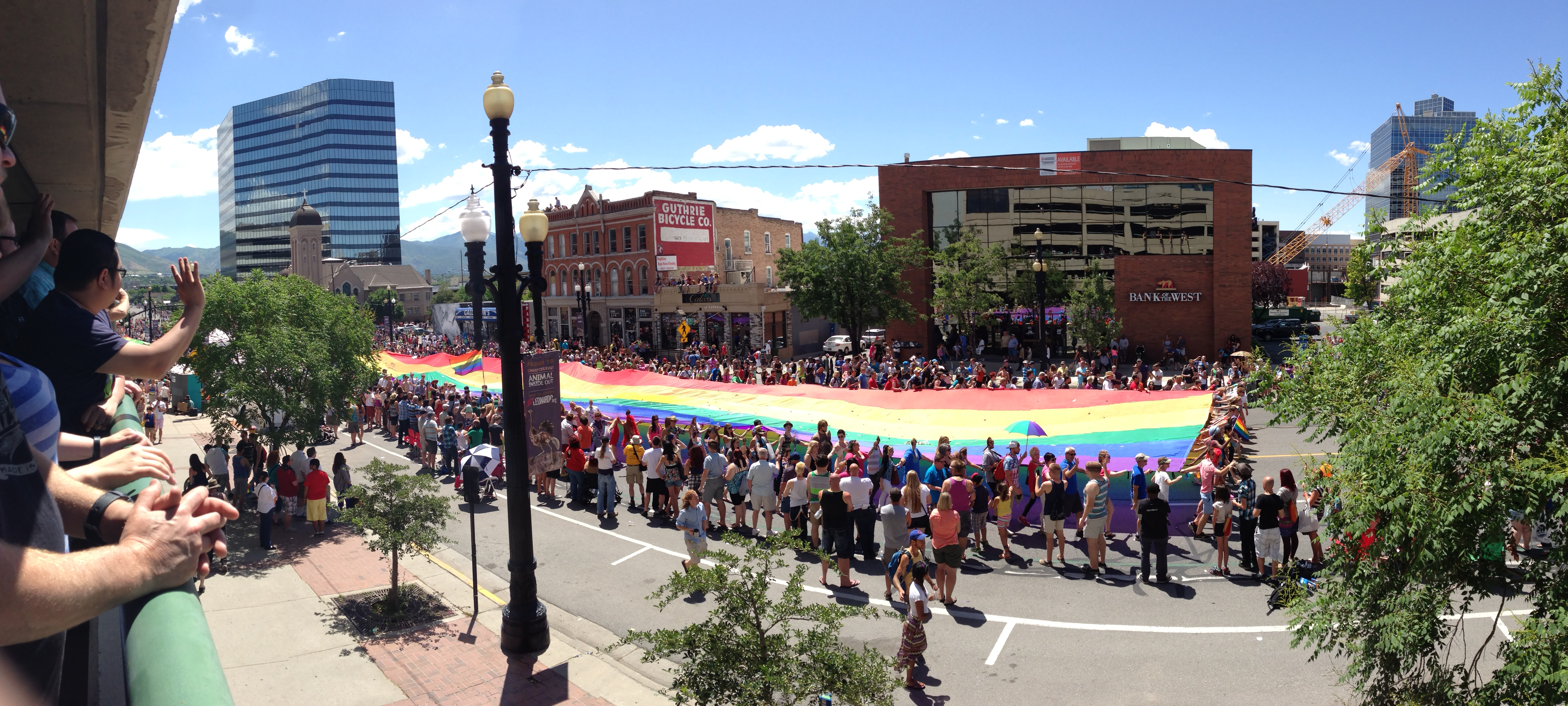 The rainbow flag traveling west on 200 South at the back of the Utah Pride parade in Salt Lake City. People watch from the street, from rooftops, and from a parking structure. Taken using panorama mode on an iPhone 5.